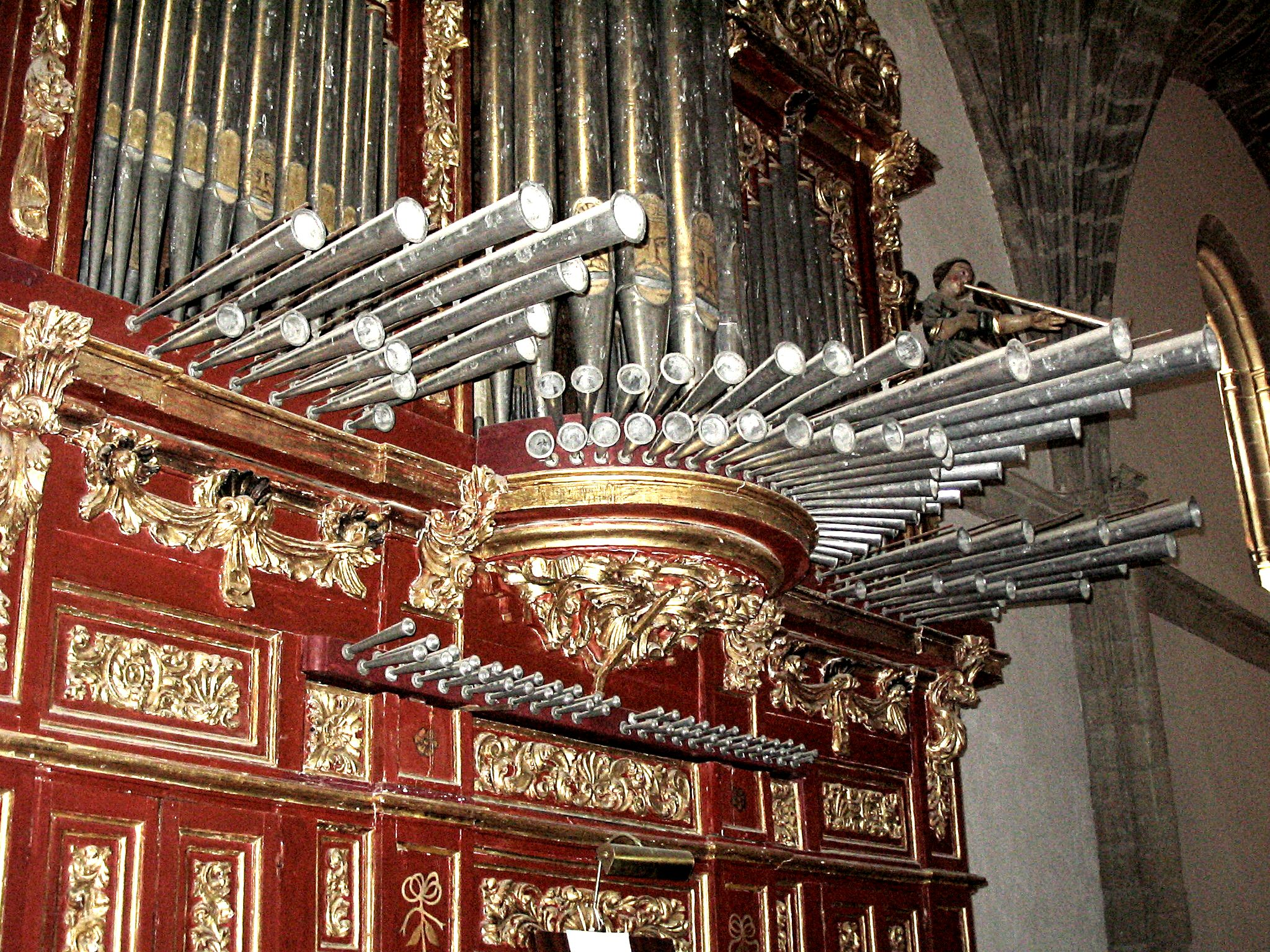 Detail of the pipe organ in the cathedral of Trujillo, Spain